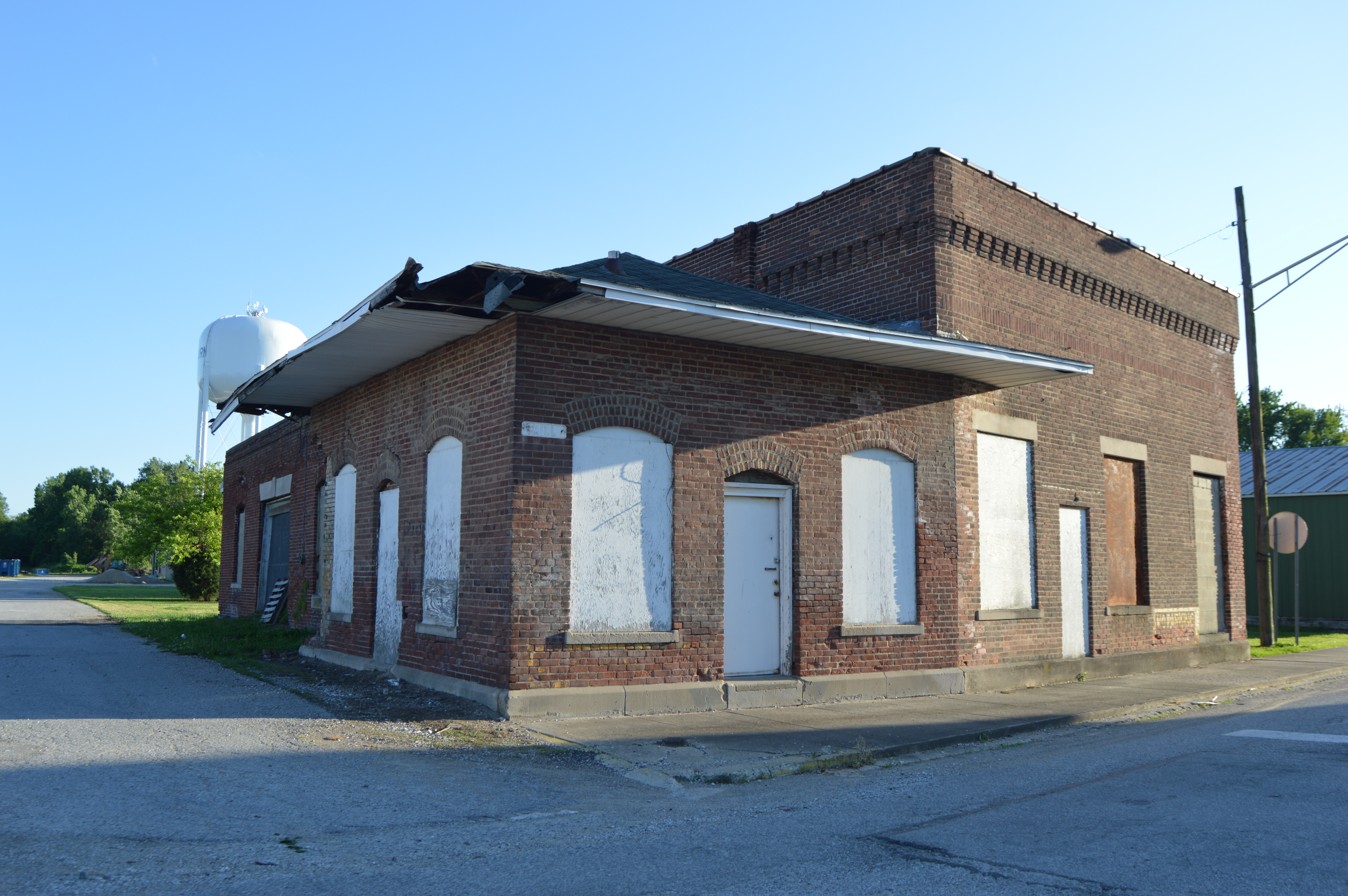 Front and eastern side of the Shelburn Interurban Depot-THI&E Interurban Depot, located at 3 N. Railroad Street in Shelburn, Indiana, United States. Built in 1920 for the Terre Haute, Indianapolis and Eastern Traction Company, it is listed on the National Register of Historic Places.